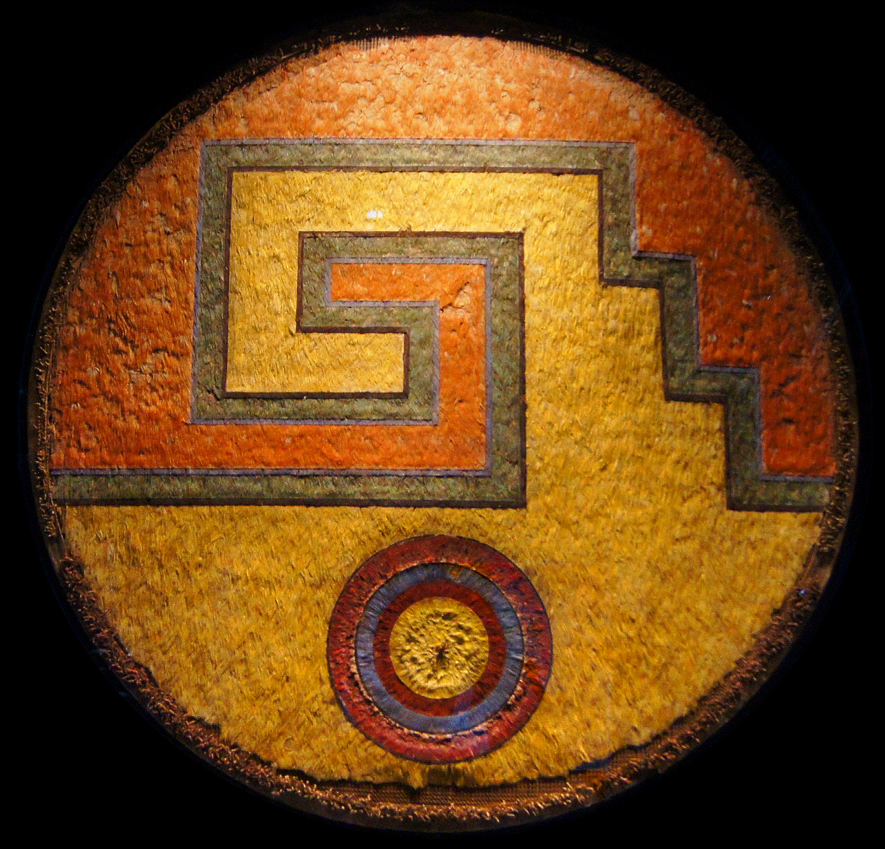 Aztec Feather Shield with Sun, Landesmuseum Württemberg, [KK orange 6]